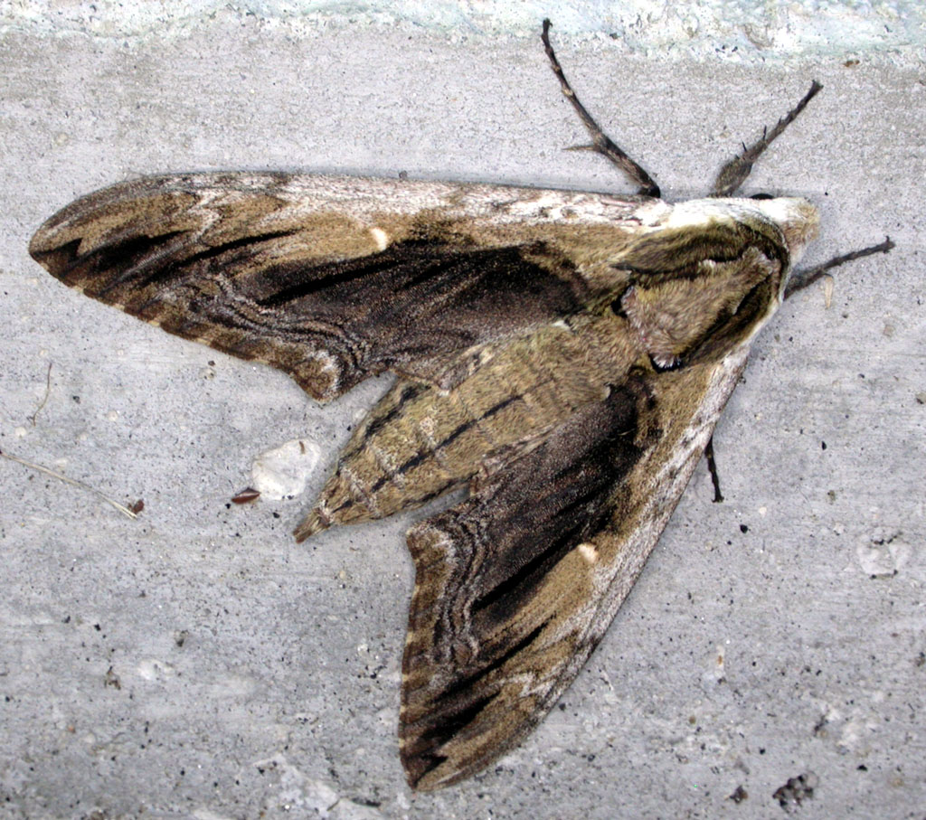 Elm Sphinx, Ceratomia amyntor, imago (adult), Durham, North Carolina, United States